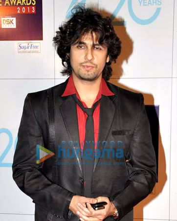 Sonu Nigam at Zee Cine Awards 2013